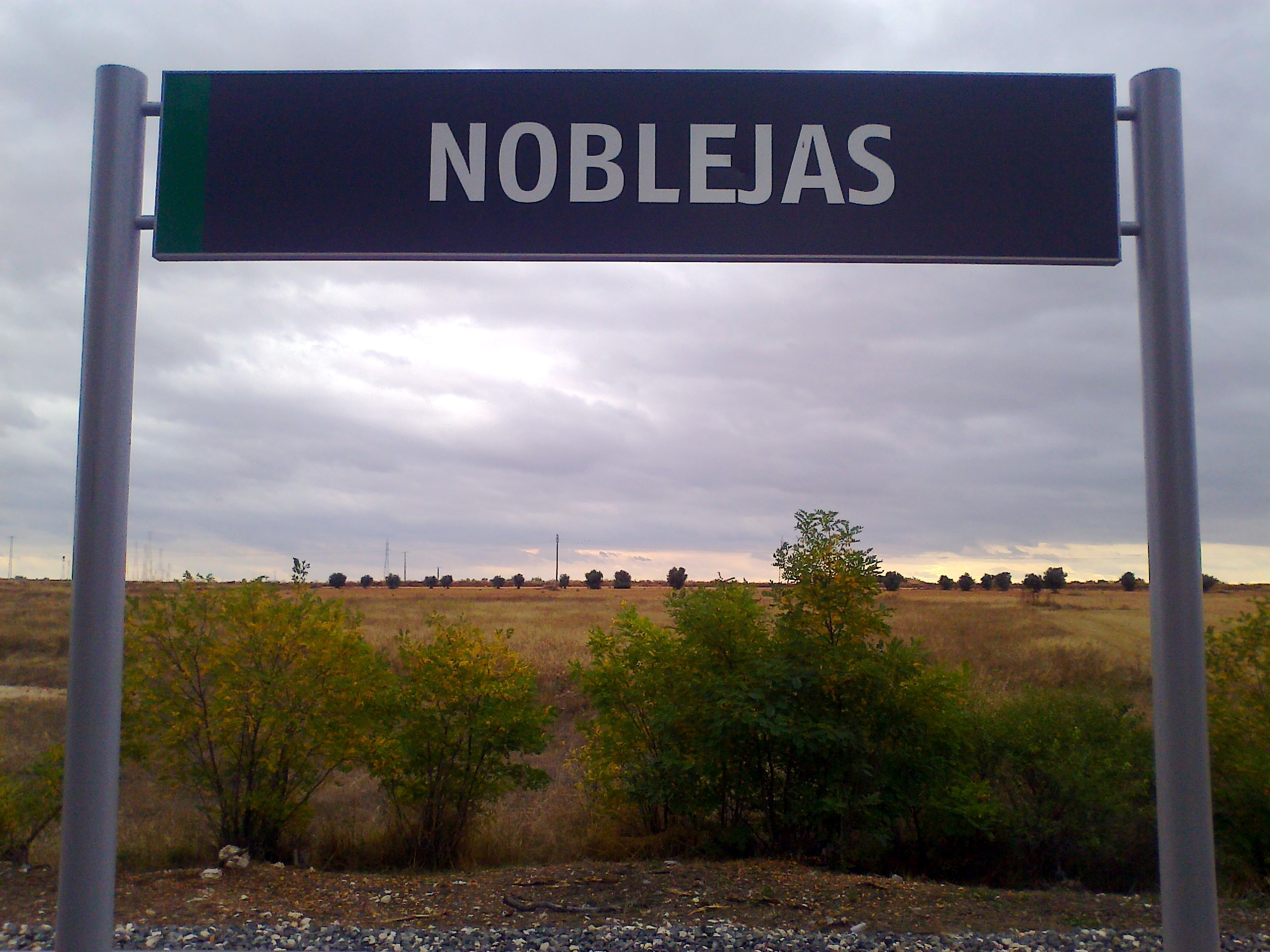 Board with the name of the railway station